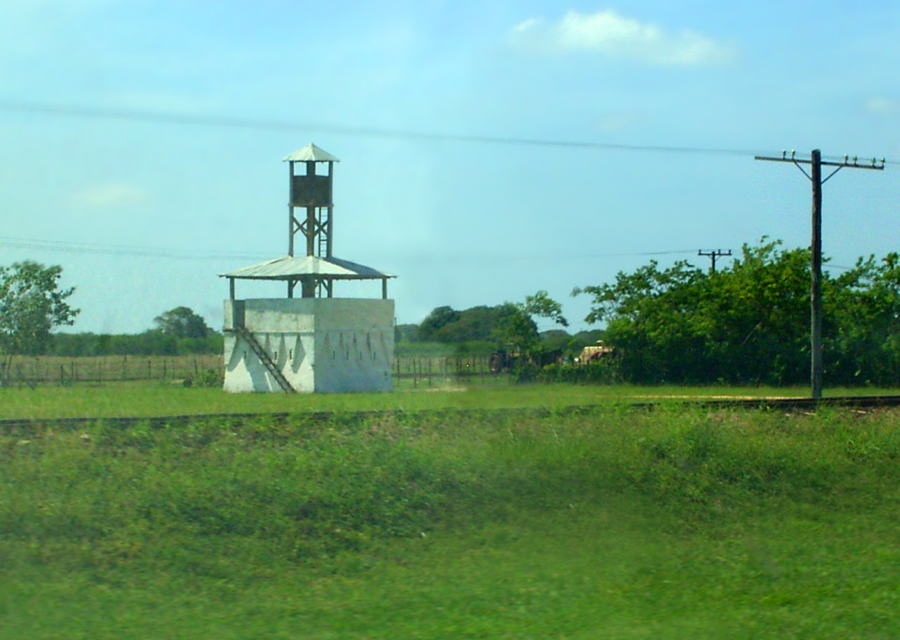 Cuba - Trocha de Júcaro a Morón - Fort along train line Pina-Ciego de Ávila